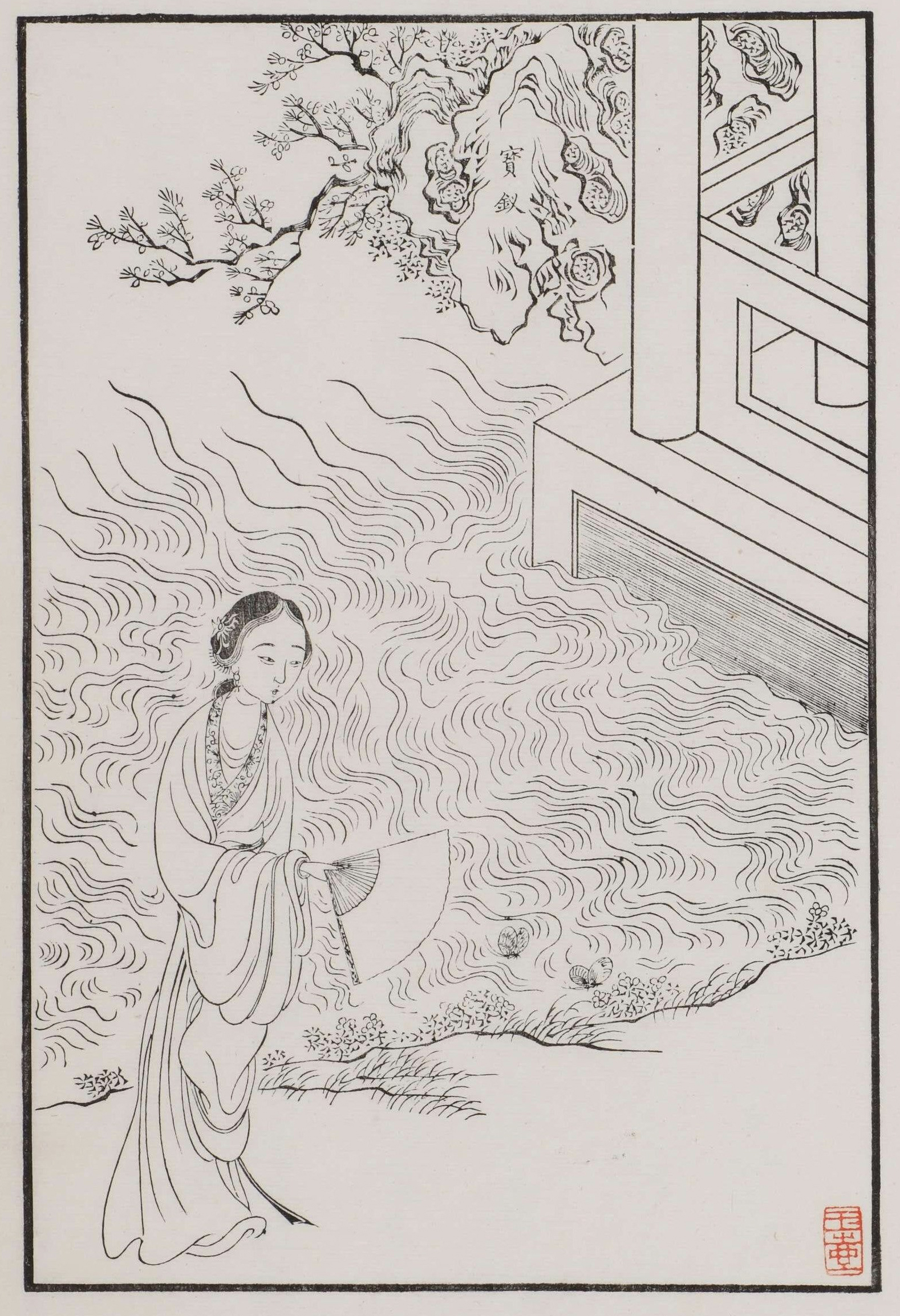 Xue Baochai